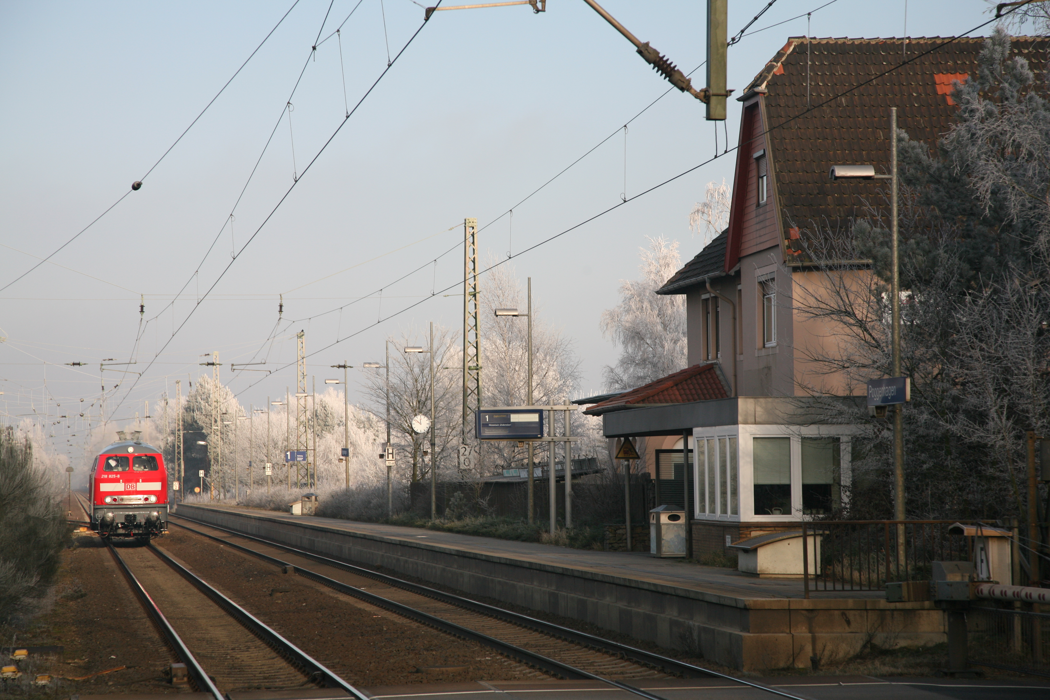 Poggenhagen station naer Neustadt a. Rbge. in Lower Saxony, Germany.